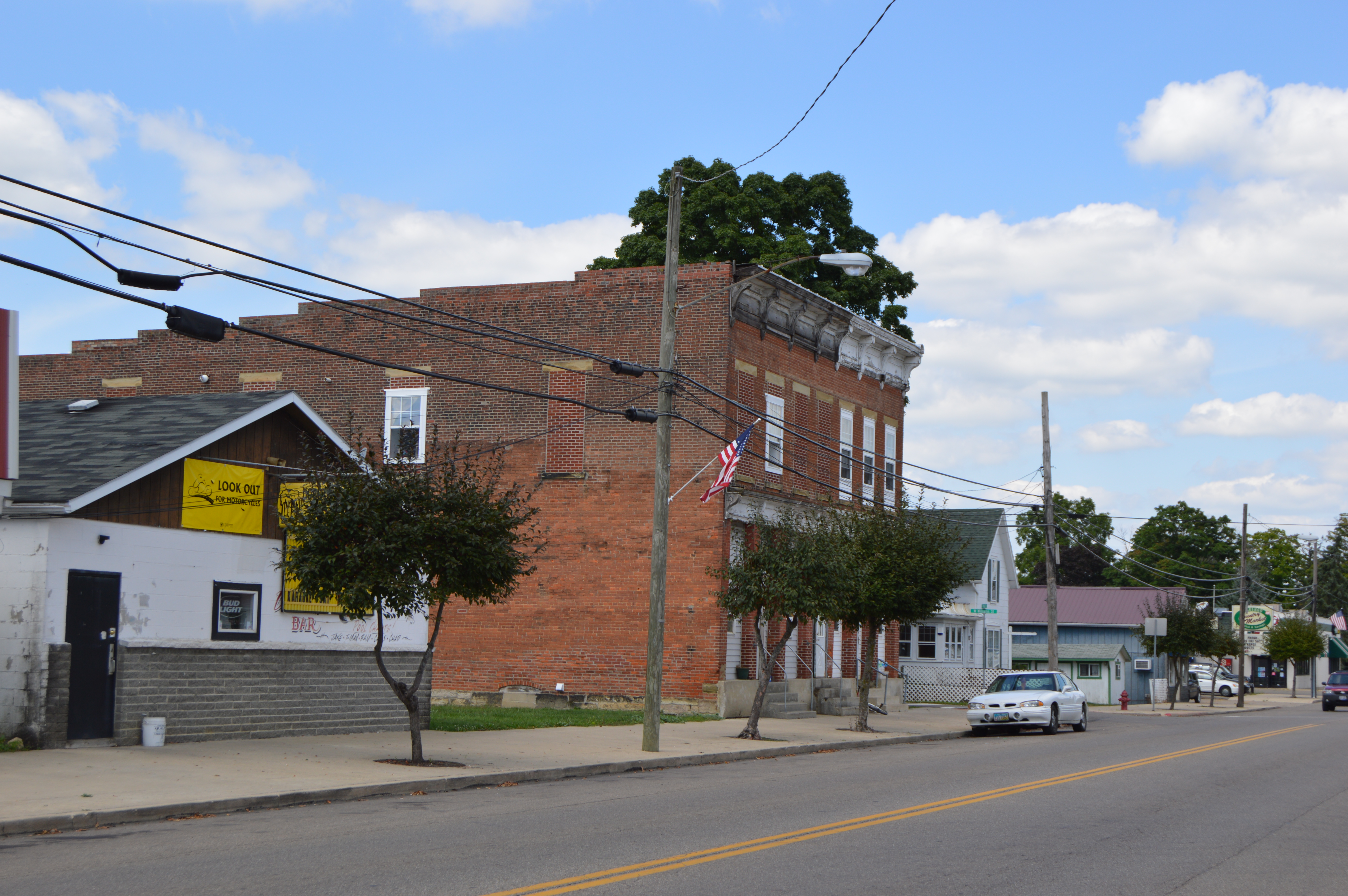 Buildings on the western side of Main Street (State Route 229) immediately south of the Williams Street intersection in Marengo, Ohio, United States.